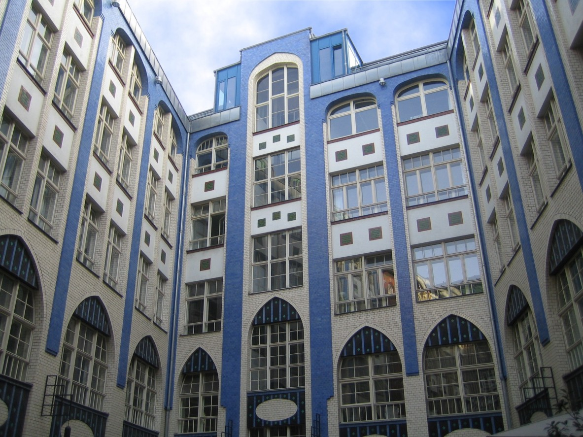 The "Hackesche Höfe" in Berlin, facade at the fist court